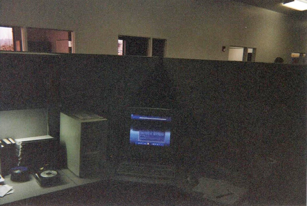 Interior of the offices of Caldera Systems, Inc. in Orem, Utah, as seen in January 2001.